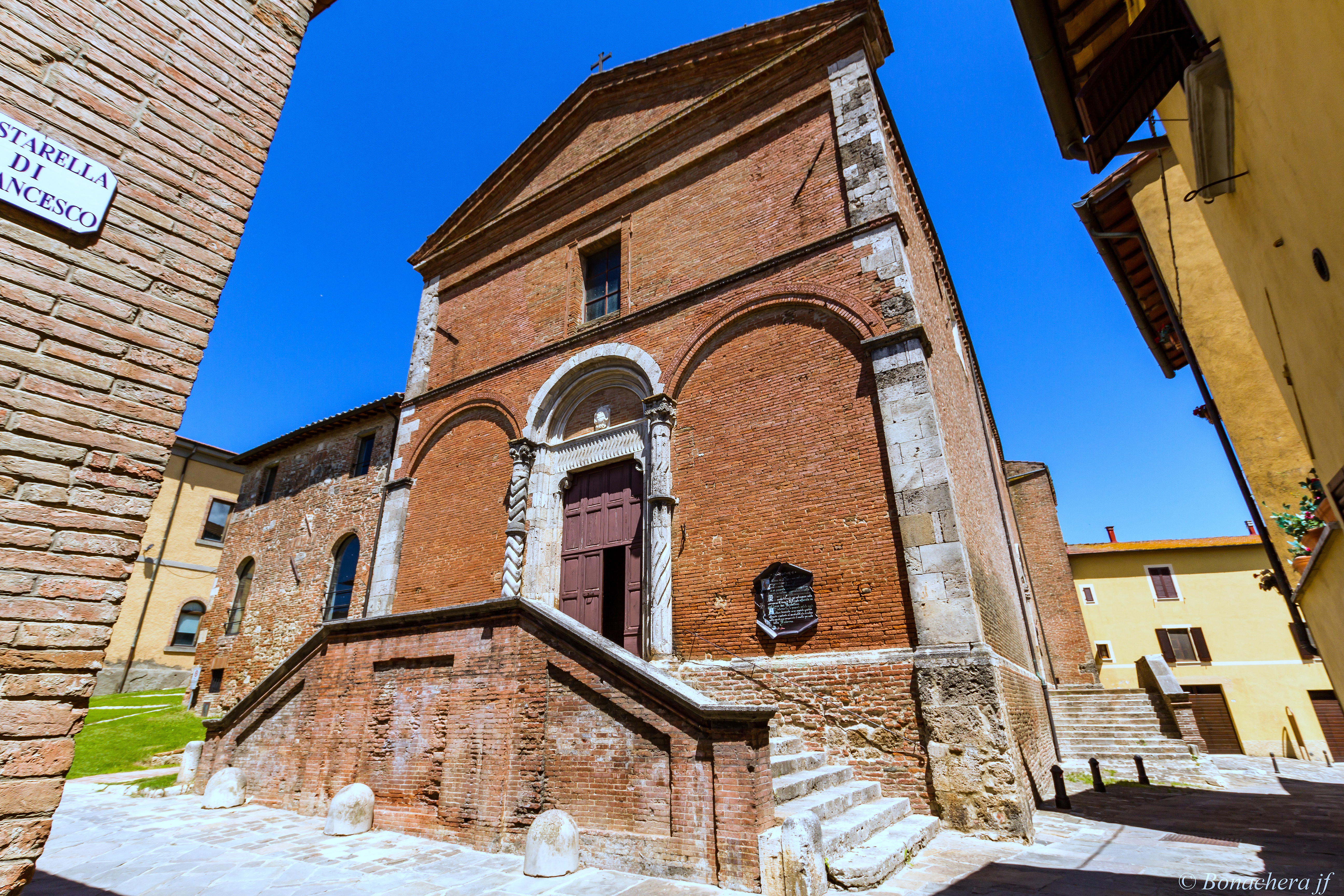 chiesa di san francesco di Chiusi